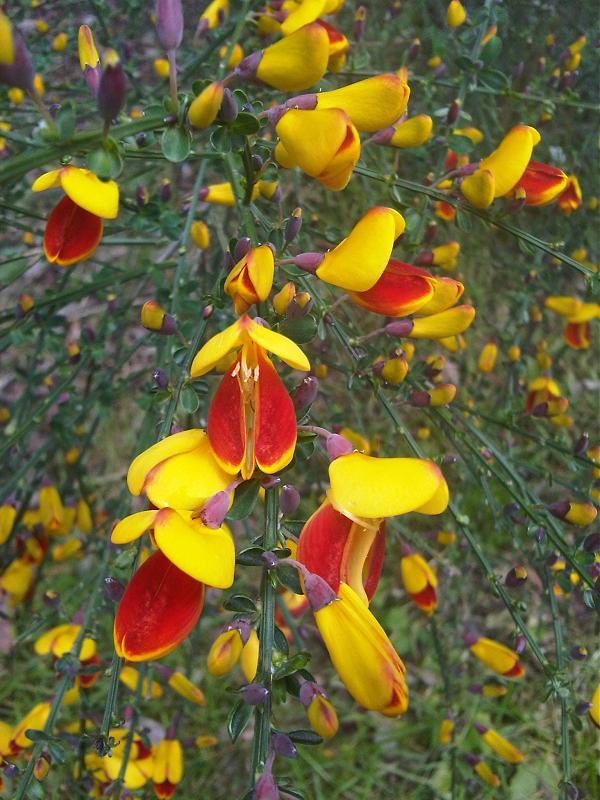 Common Broom Cytisus scoparius Andreanus Group with red flowers in London, England.